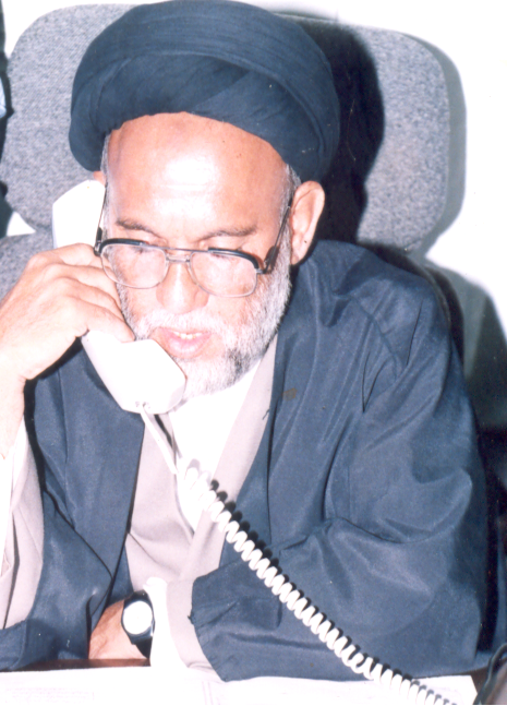 At Office